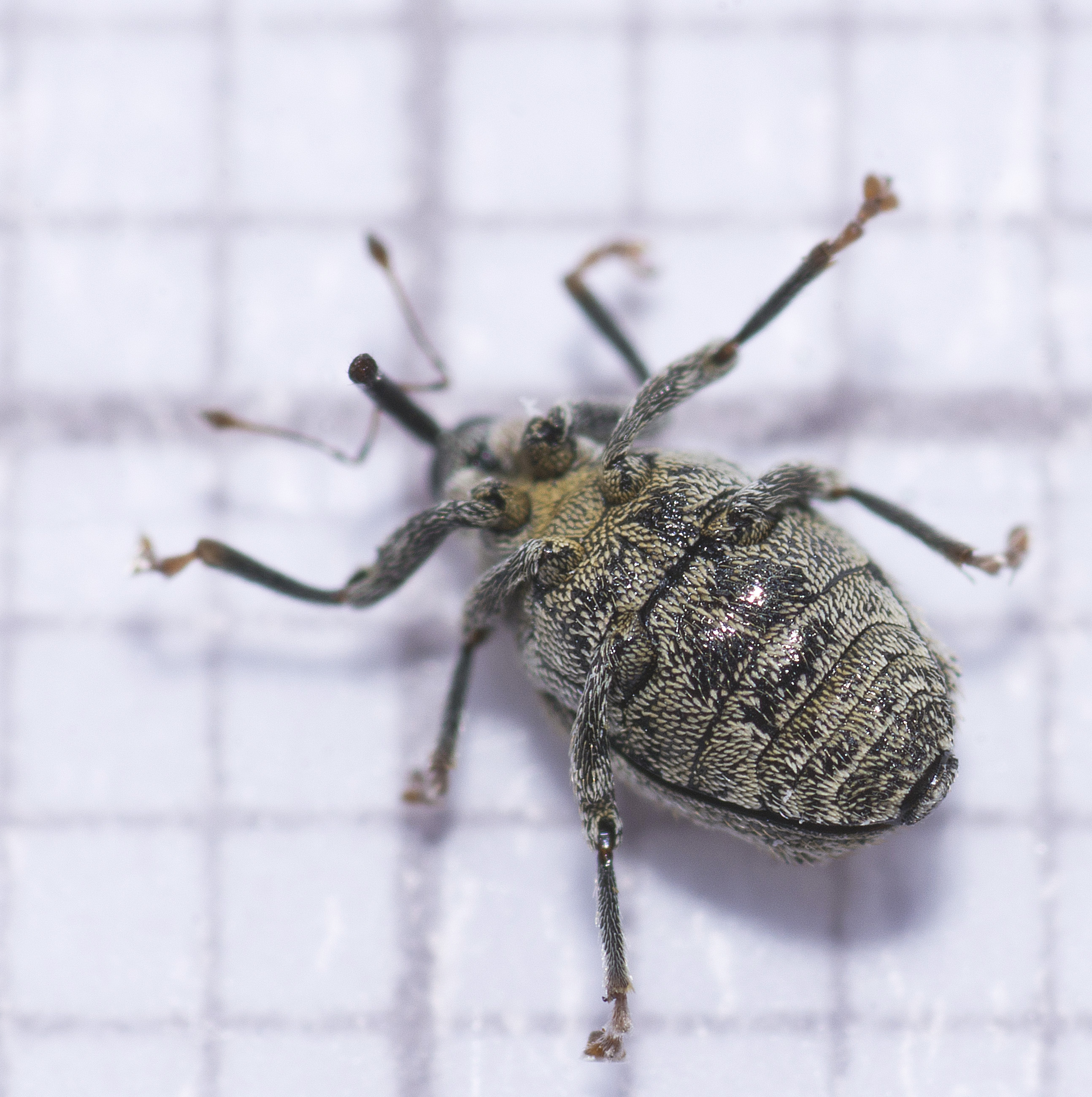 Ceutorhynchus pallidactylus. He likes having his tummy tickled.